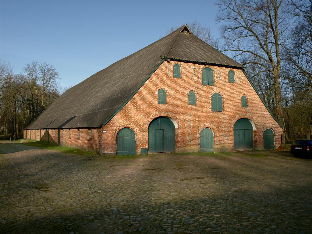 Manorial domain Emkendorf (Slesvic-Holstein, Germany), former cow-shed, photo 2008